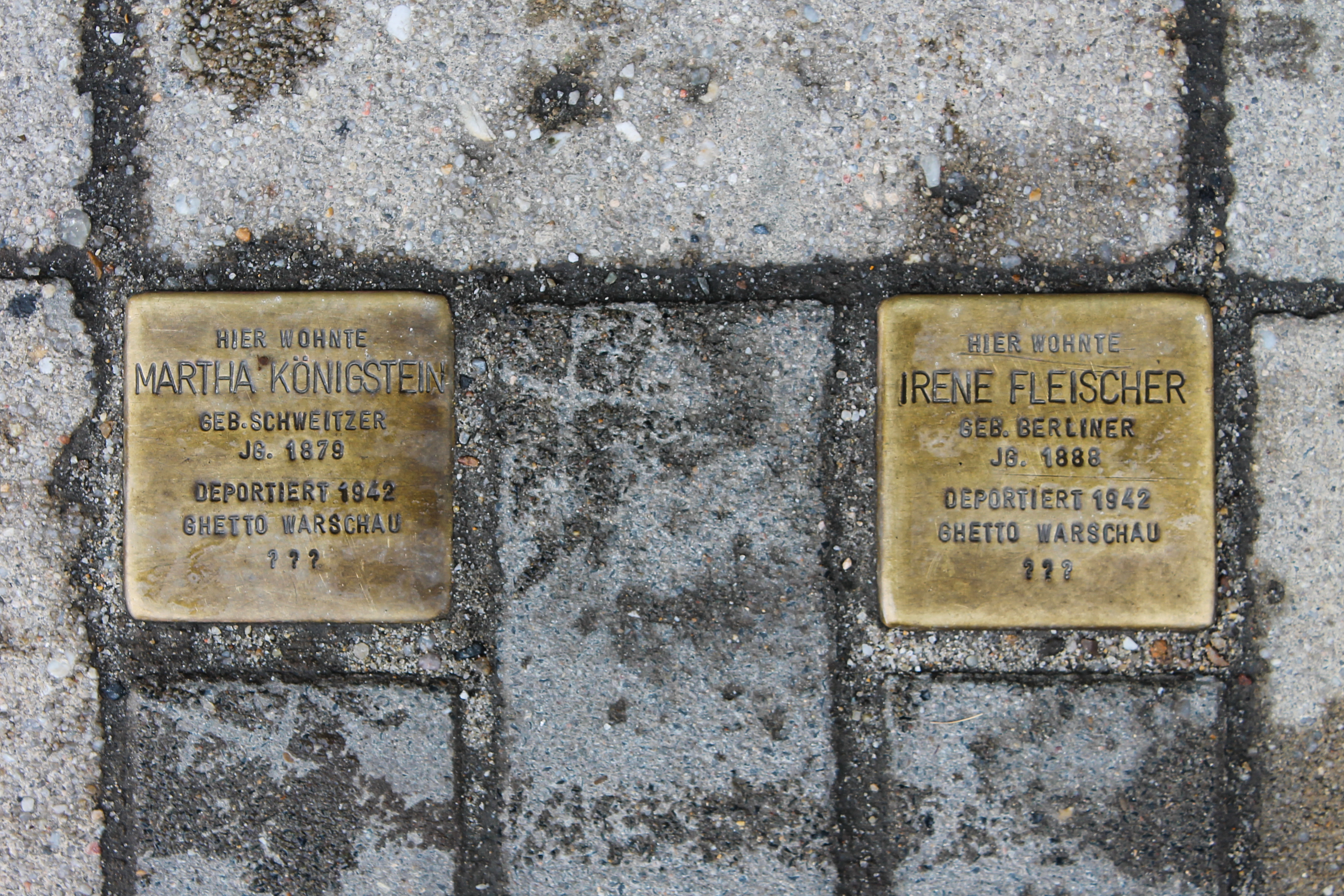 Stolpersteine for Martha Königstein and Irene Fleischer in the Lessingstraße 4 in Cottbus, layed on July 11, 2007.